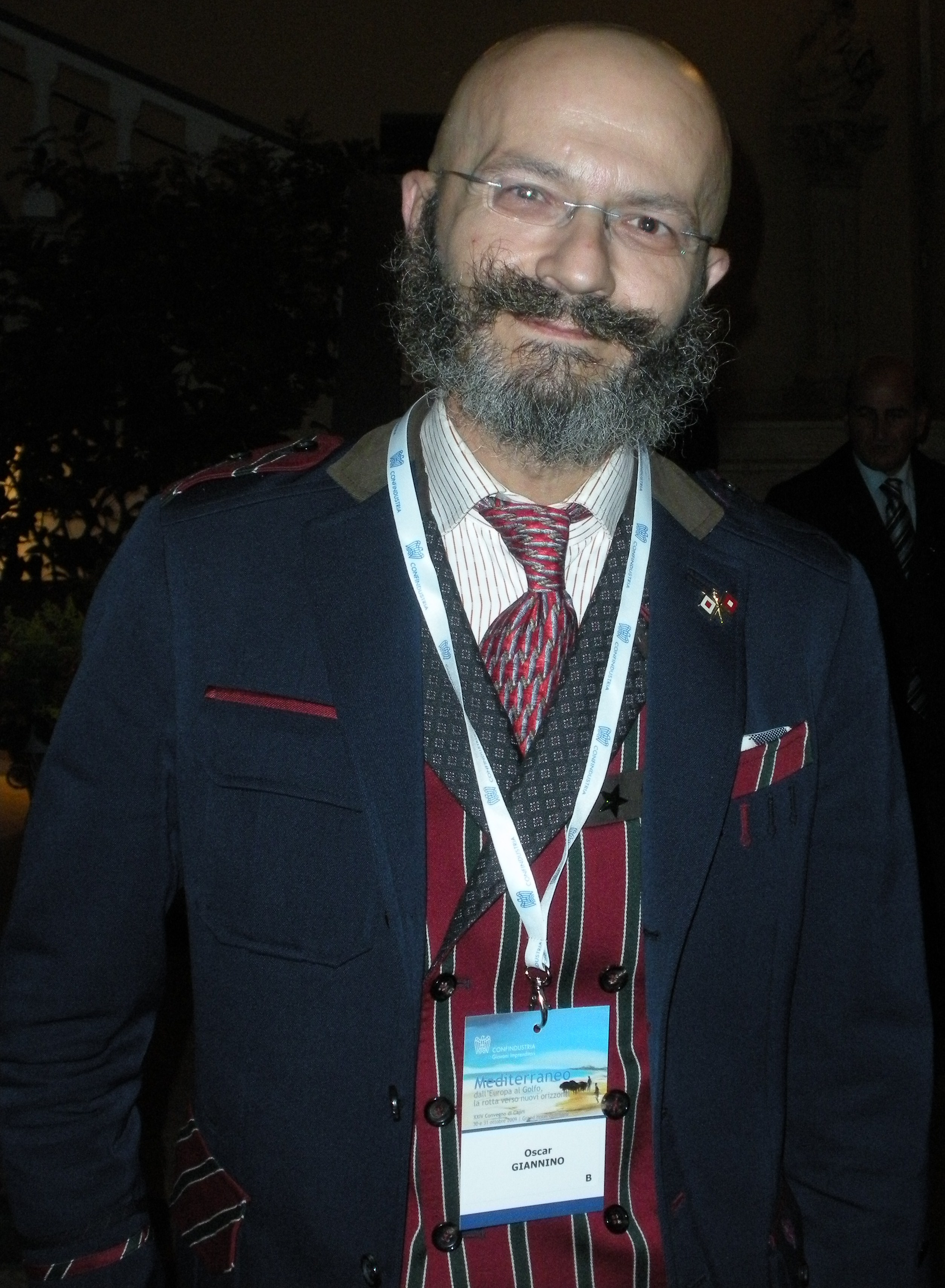 Oscar Giannino, italian journalist.